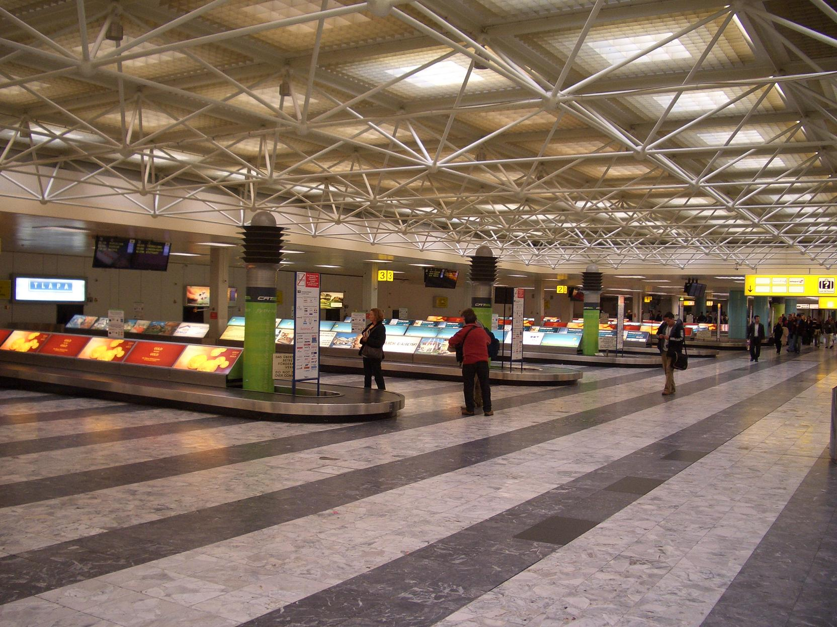 Vienna Airport Luggage Re-claim Hall